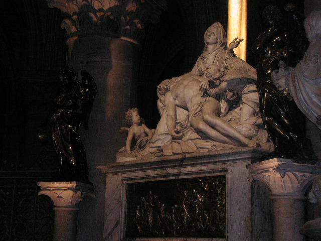 Nicolas Coustou (French, 1658-1733): Pietà, 1723, main altar of Notre-Dame de Paris cathedral, Paris, France.